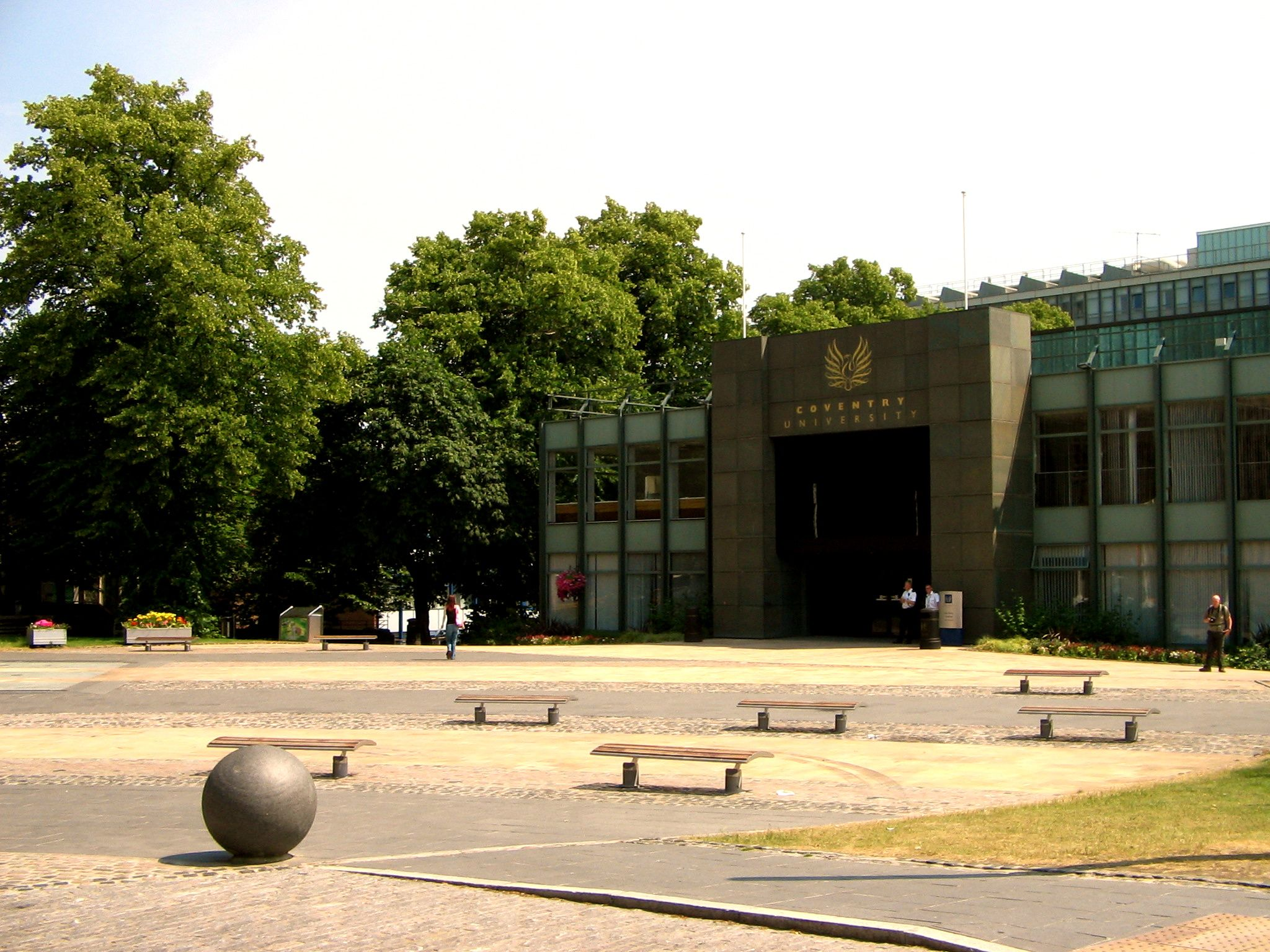 Square outside a Coventry University building... Opposite the Coventry Cathedral. Taken on 2006-07-02 by mintchocicecream. Category:Coventry University